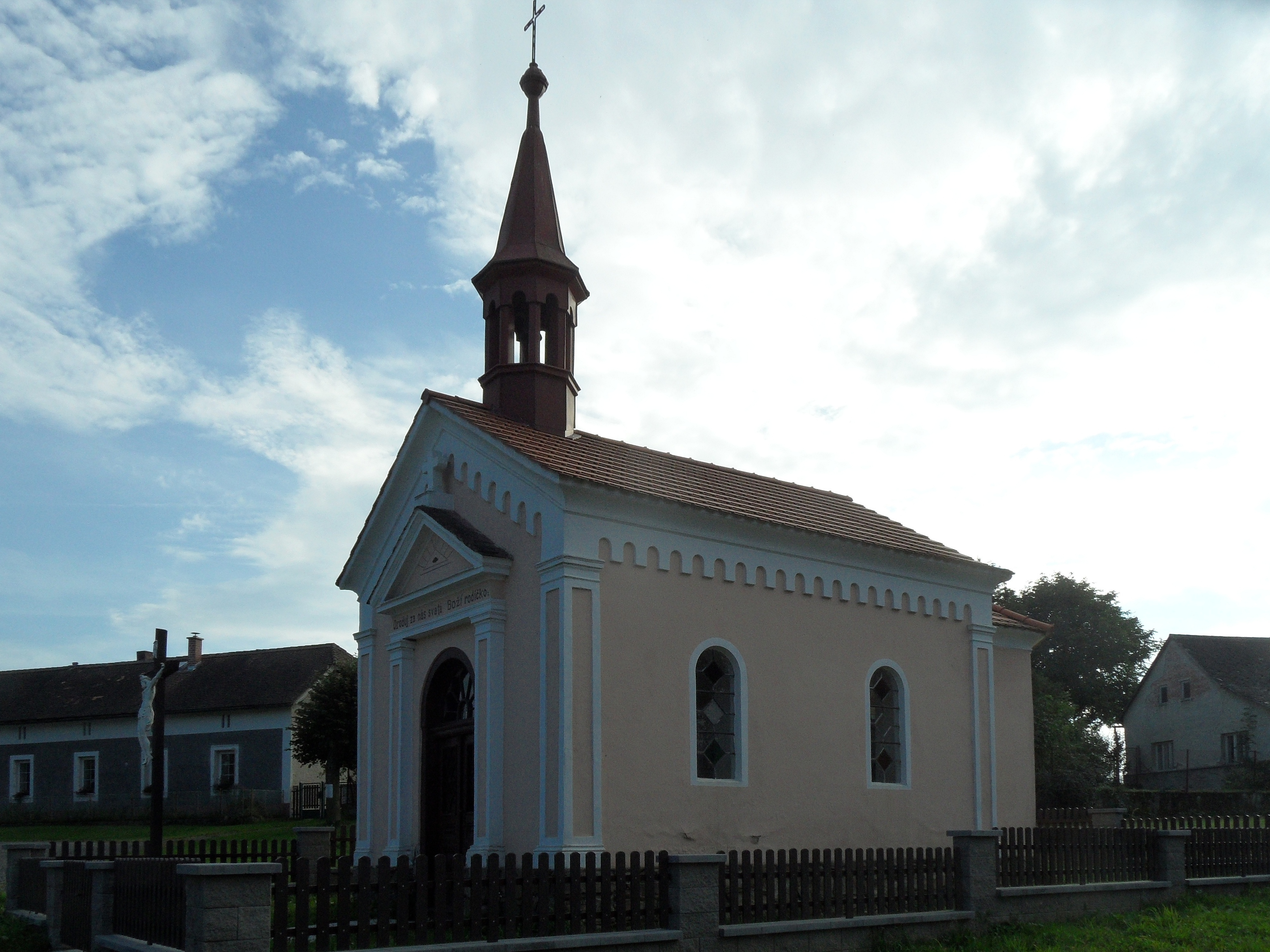 Šebestěnice A. Chapel Side View, Kutná Hora District, the Czech Republic.